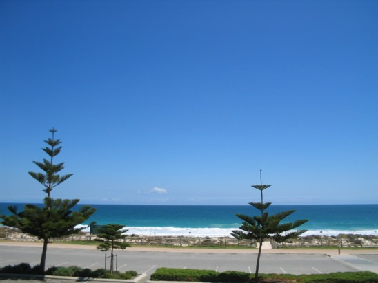 The shore of Scarborough Beach which is part of Sunset Coast.